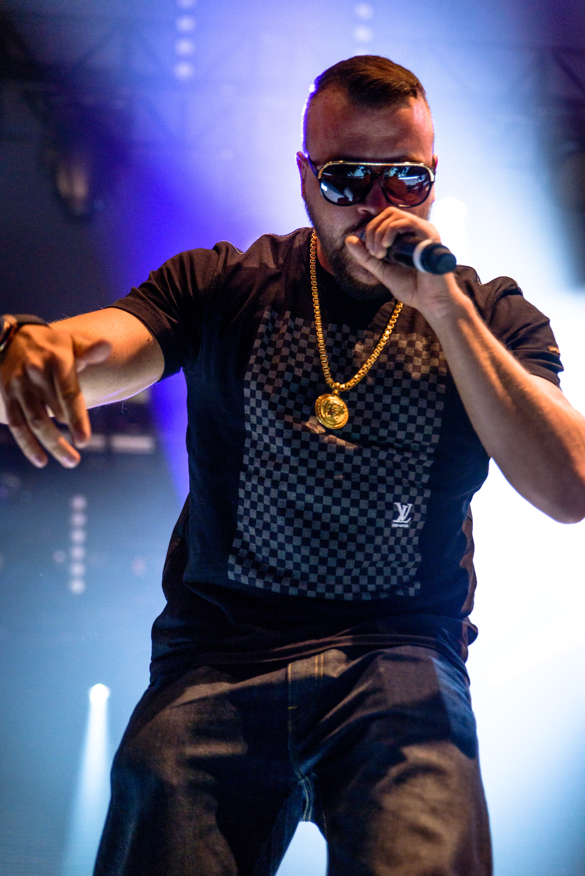 Kollegah in Munich 2015